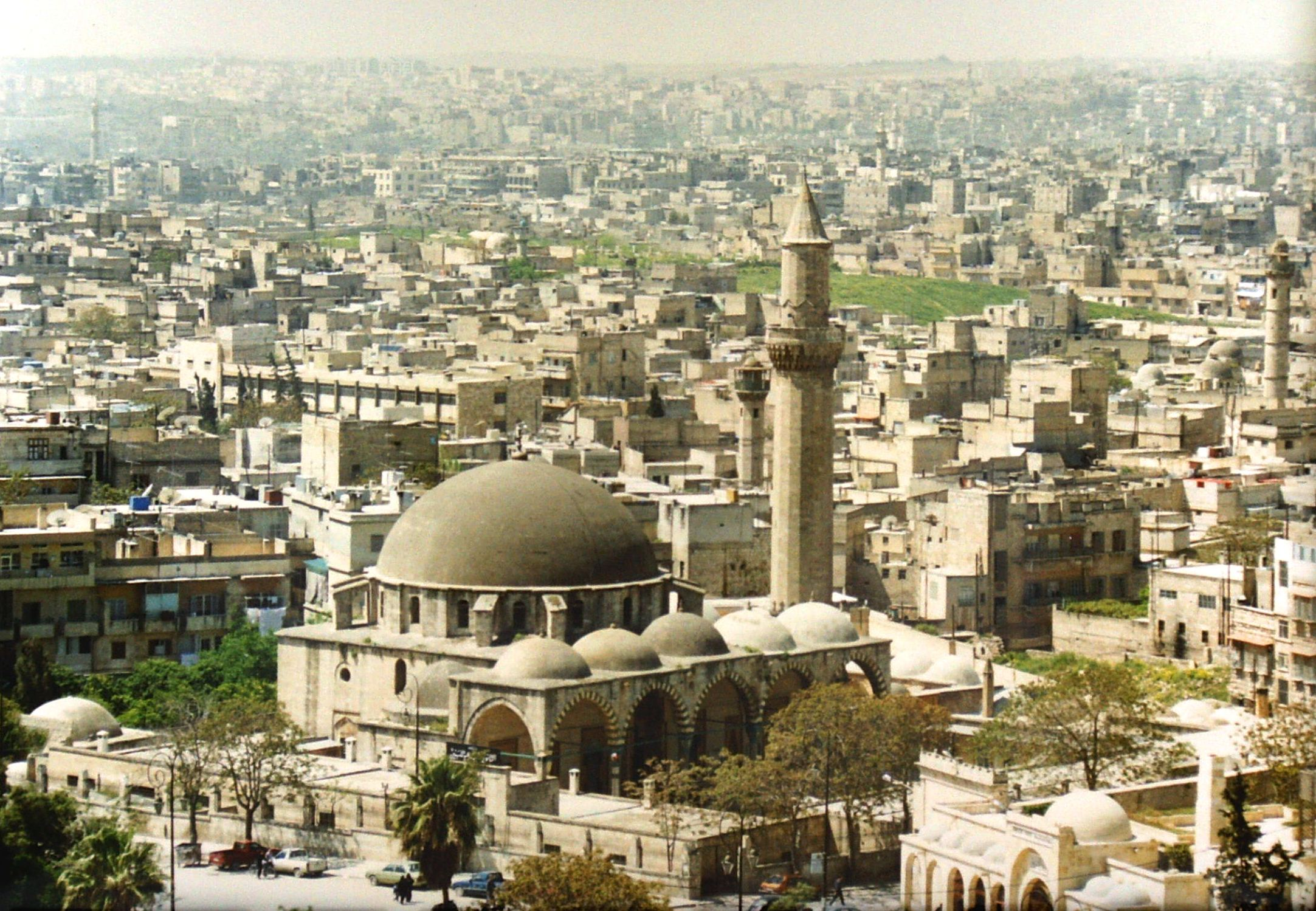 The Al-Adiliyah Mosque in Aleppo, Syria. Photo taken 1996 from the top of the Citadel with a miniature camera Minox 35 PL.